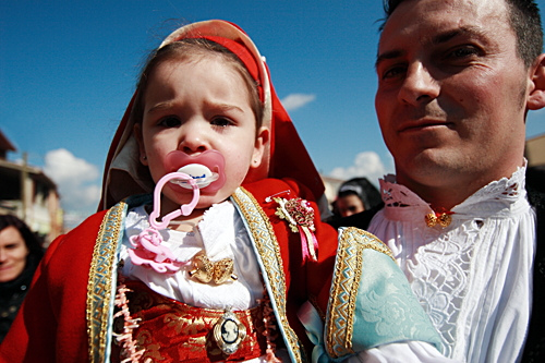 Sardinians - Sardinian people , traditional costumes